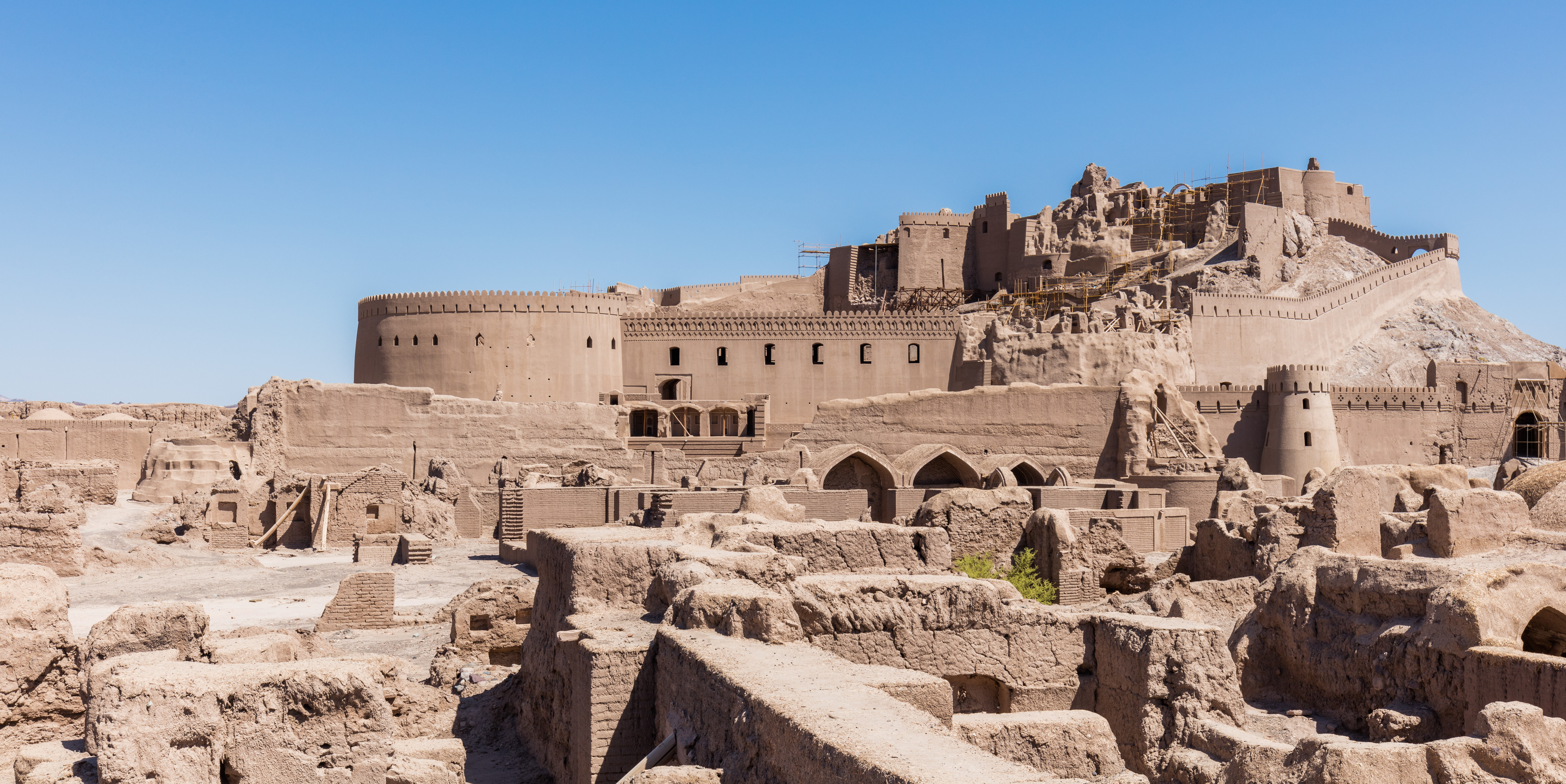 General view of Arg-e Bam, or, Bam Citadel, the largest adobe building in the world and an UNESCO world heritage site, located in Bam, Kerman Province, southeastern Iran. The origin of this enormous citadel on the Silk Road can be traced back to the Achaemenid Empire (6th-4th centuries BC) and even beyond. The citadel was destroyed by the devastating 2003 Bam earthquake that cost over 26,000 lives and is being reconstructed since then.